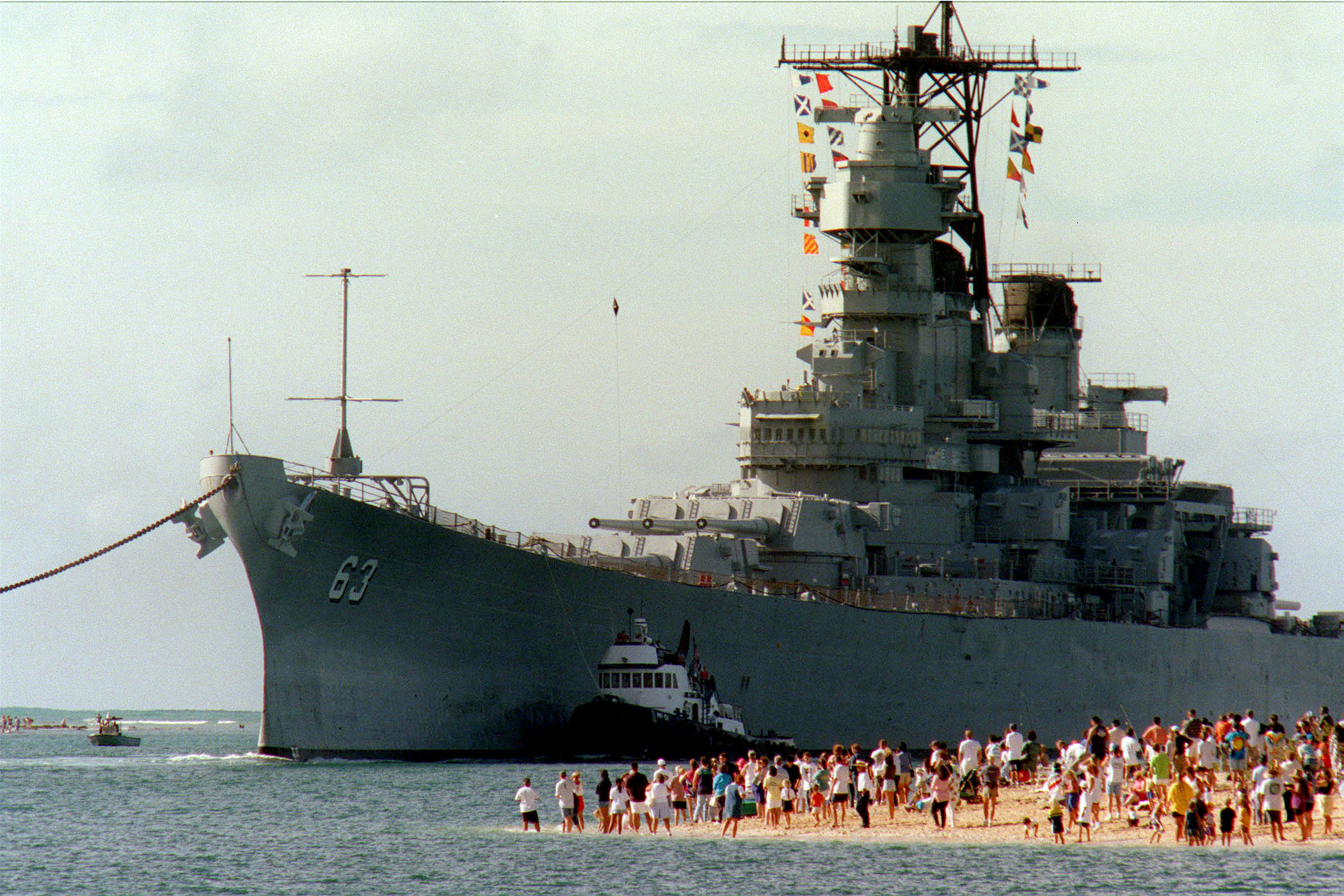 People gather on the beach to see the battleship USS Missouri (BB 63) enter the channel into Pearl Harbor, Hawaii, on June 22, 1998. Secretary of the Navy John H. Dalton signed the Donation Agreement on May 4th, allowing Missouri to be used as a museum near the Arizona Memorial. The ship was towed from Bremerton, Wash. DoD photo by Petty Officer 1st Class David Weideman, U.S. Navy.